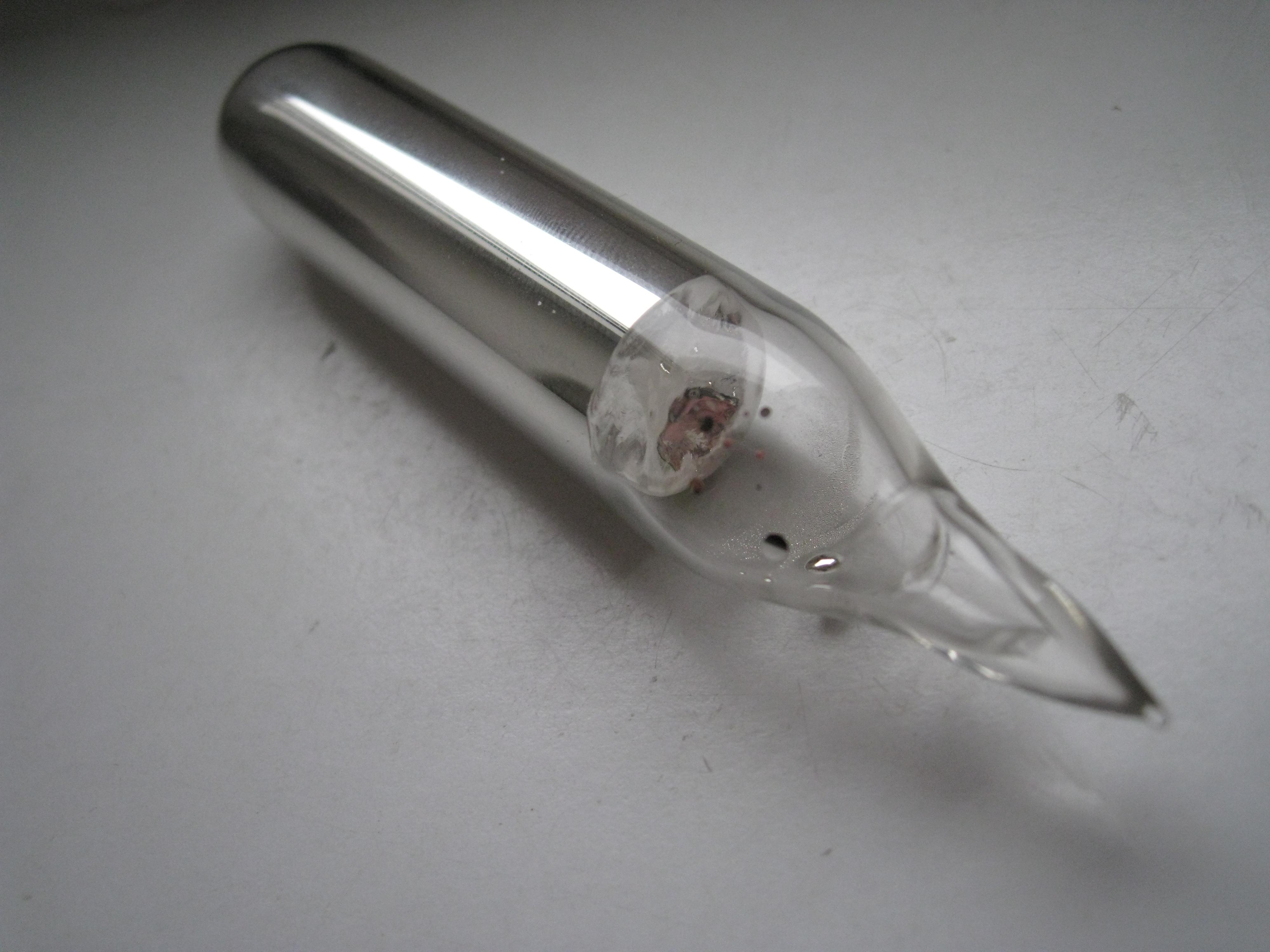 Rubidium metal sample from the Dennis s.k collection.